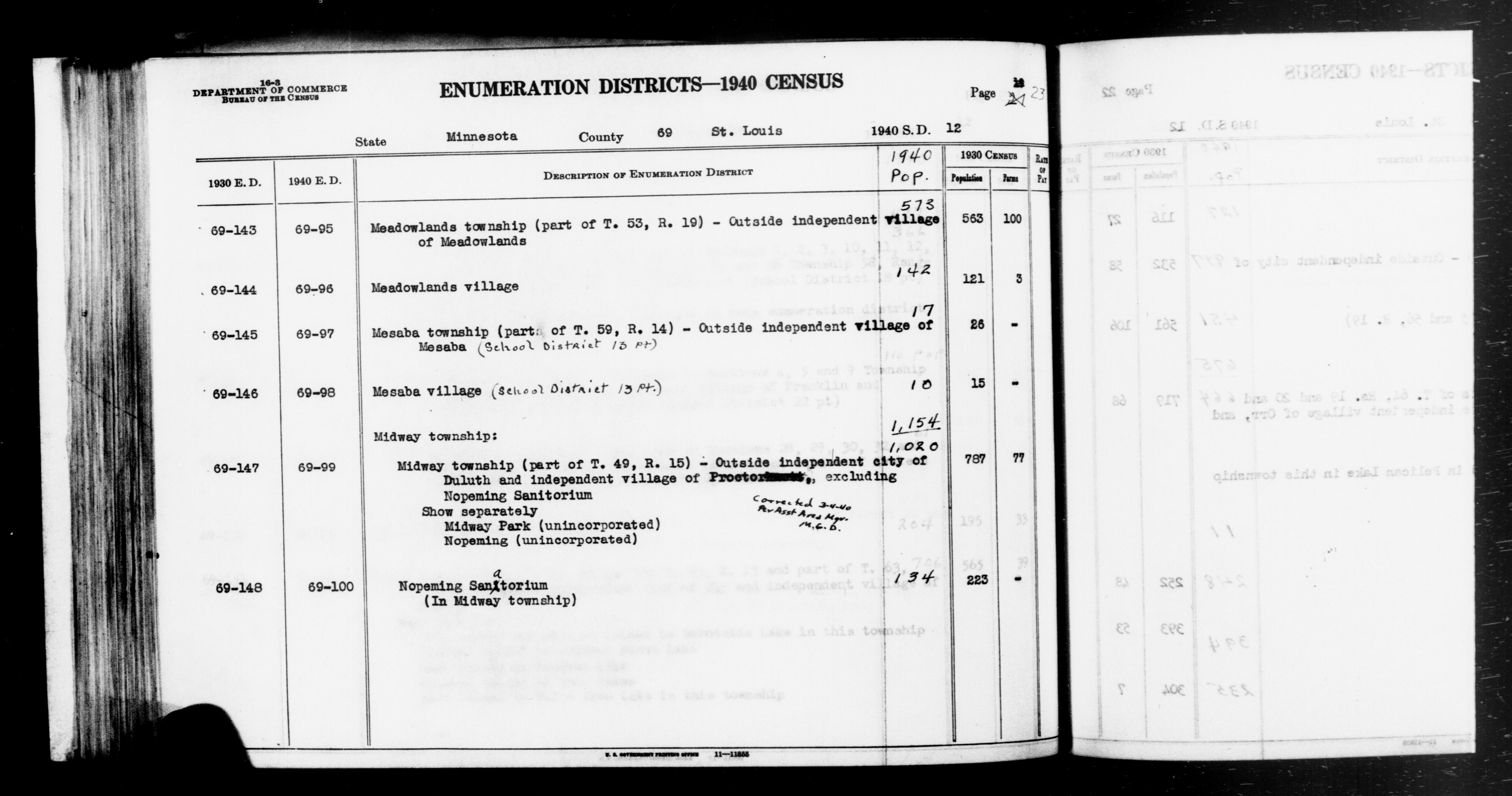 Scope and content: This item lists Enumeration Districts for: MN ED 69-95: MEADOWLANDS TOWNSHIP (TOWNSHIP 53 RANGE 19 (PART)) OUTSIDE MEADOWLANDS VILLAGE. MN ED 69-96: MEADOWLANDS VILLAGE. MN ED 69-97: MESABA TOWNSHIP (TOWNSHIP 59 RANGE 14 (PART)) OUTSIDE MESABA VILLAGE (SCHOOL DISTRICT 13 PT.). MN ED 69-98: MESABA VILLAGE (SCHOOL DISTRICT 13 PT.). MN ED 69-99: MIDWAY TOWNSHIP (TOWNSHIP 49 RANGE 15 (PART)) OUTSIDE DULUTH CITY AND PROCTOR VILLAGE, MIDWAY PARK, NOPEMING. MN ED 69-100: MIDWAY TOWNSHIP, NOPEMING SANATORIUM.